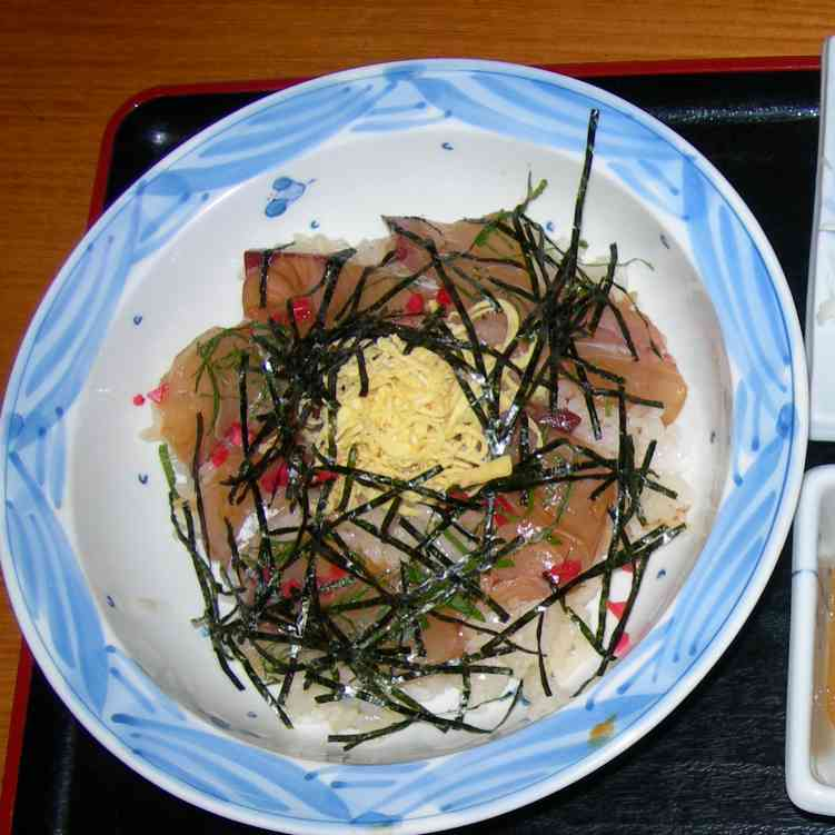 A local cuisine of vinegared rice and fish, which would be mixed with fingers just before eating it, called `Tekone-zusi,' is a kind of Sushi in Shima-shi, Mie-ken, Japan.